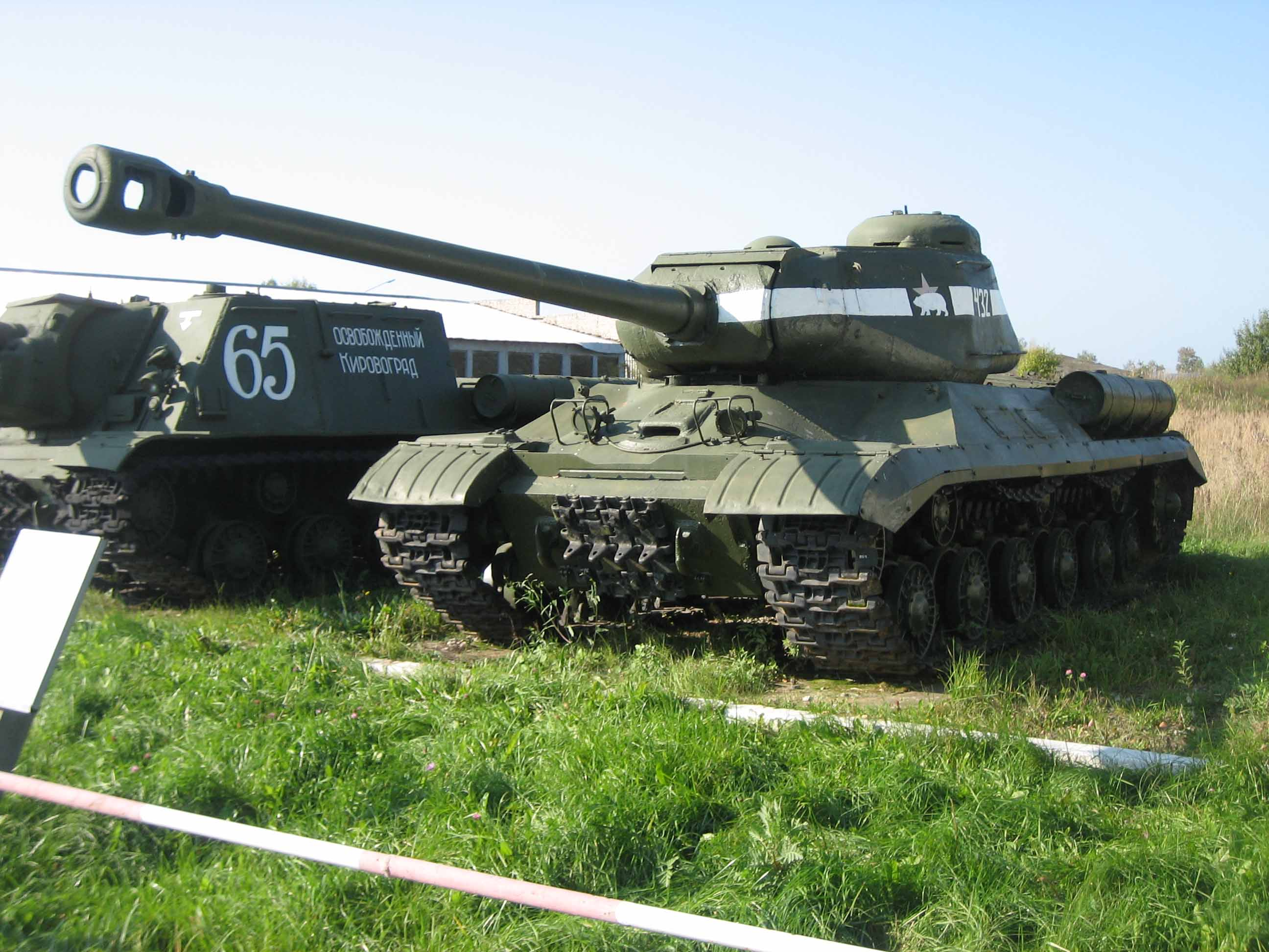 Soviet heavy tank IS-2, displayed in Kubinka Tank Museum. Photo taken on September 23, 2006. Source: Photo by me, User:Saiga20K.